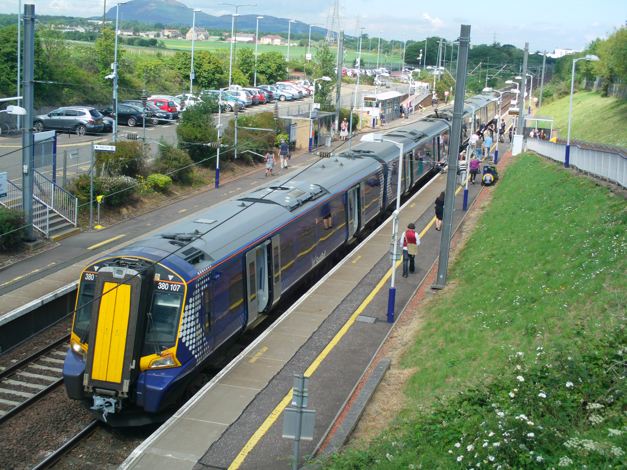 380107 Calls at Musselburgh with a Service to North Berwick